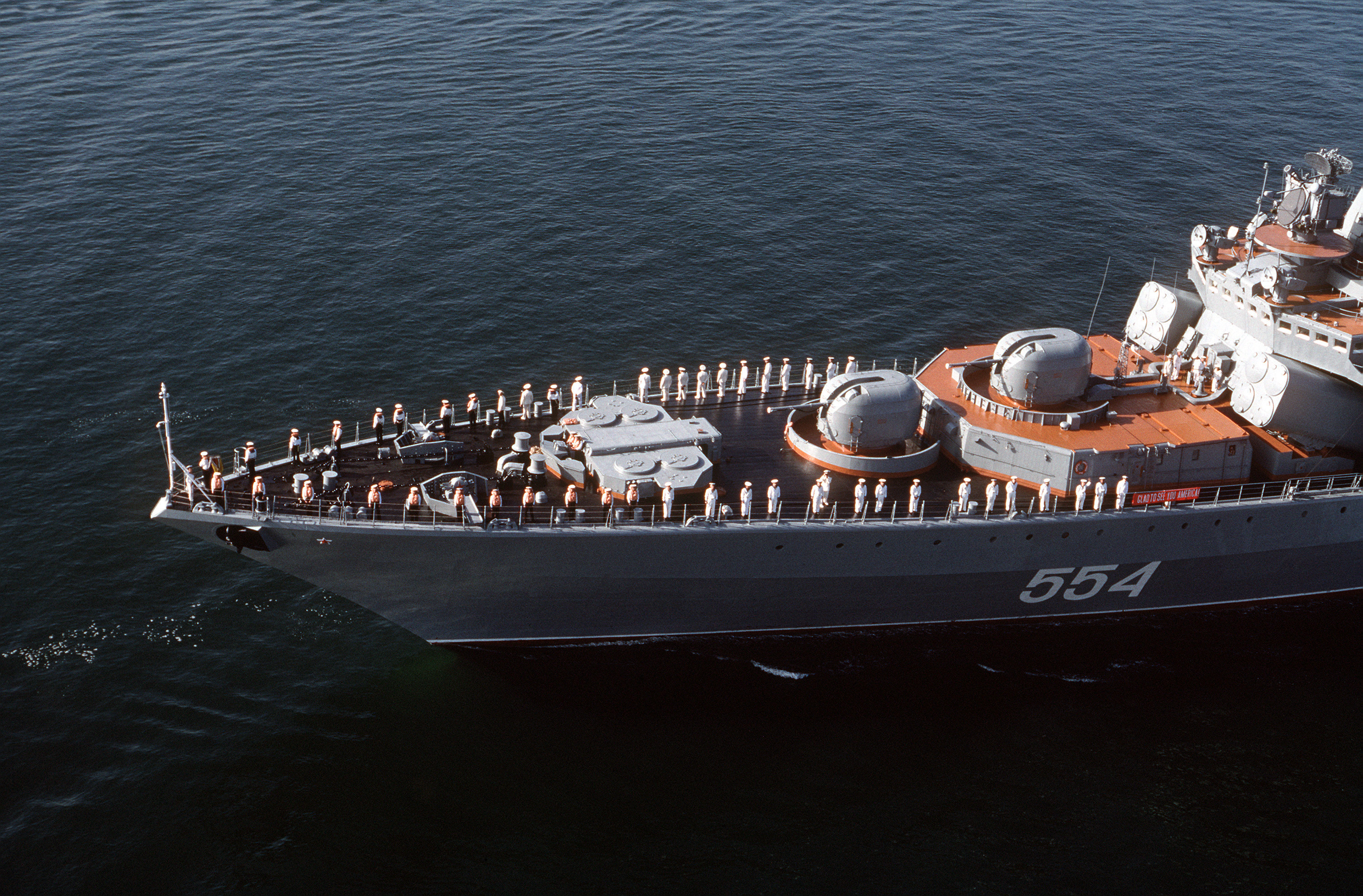 Crew members man the rails on the bow of the Soviet Udaloy class destroyer ADMIRAL VINOGRADOV, as the ship heads for port at Naval Station, San Diego. The Vinogradov, along with the Sovremenny class destroyer BOYEVOY and the Kaliningradneft class support tanker ARGUN, is taking part in a four-day, goodwill visit to the naval station.